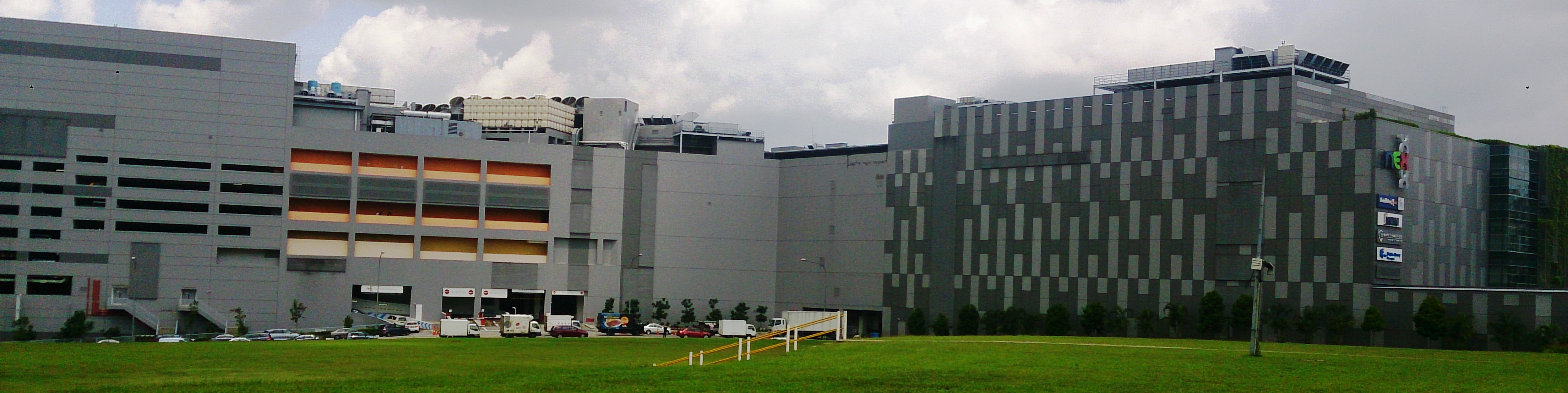 Nex shopping centre, Serangoon, Singapore.